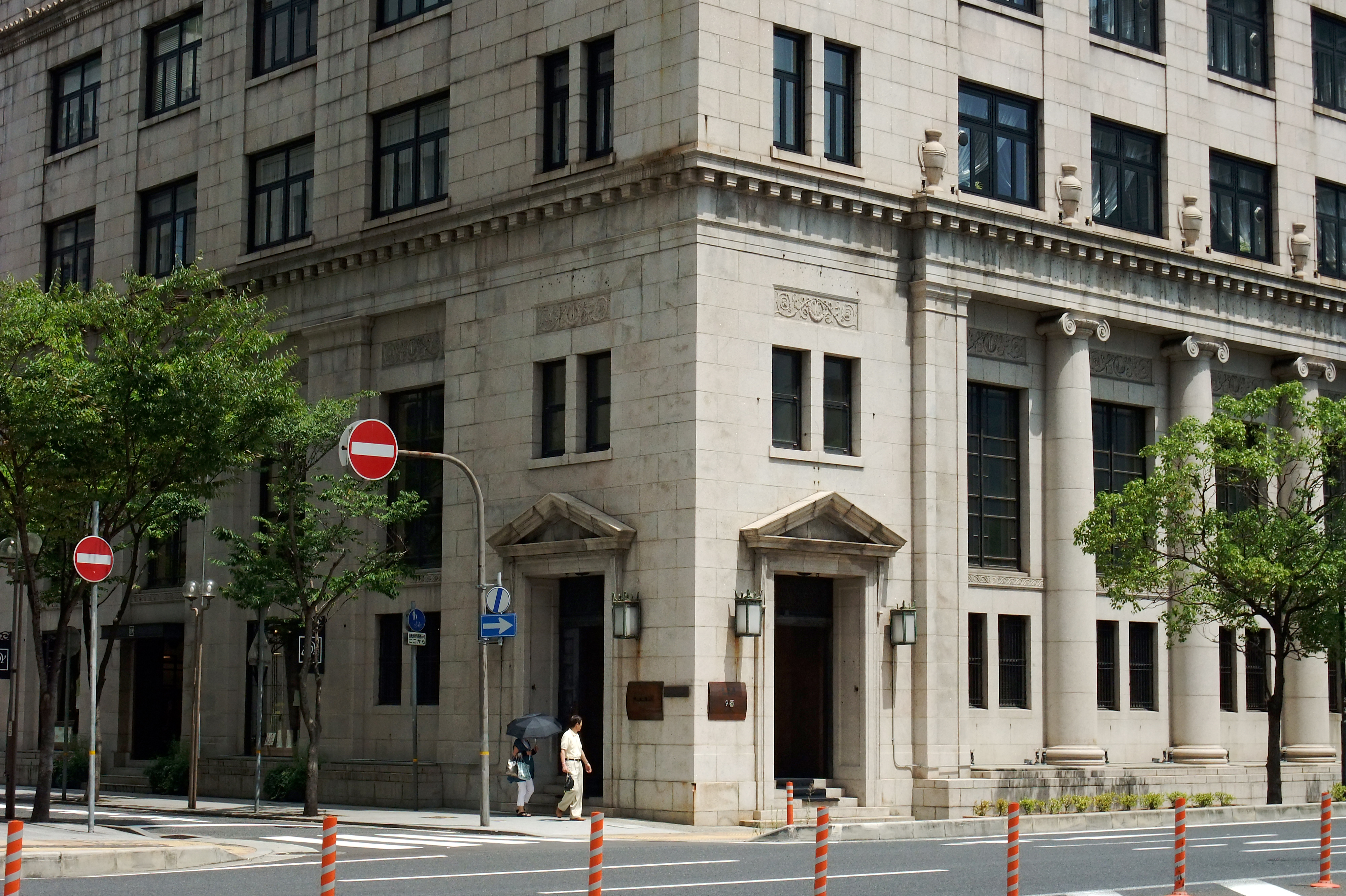 at Former Foreign Settlement of Kobe (Kyukyoryuchi) in Kobe, Hyogo prefecture, Japan